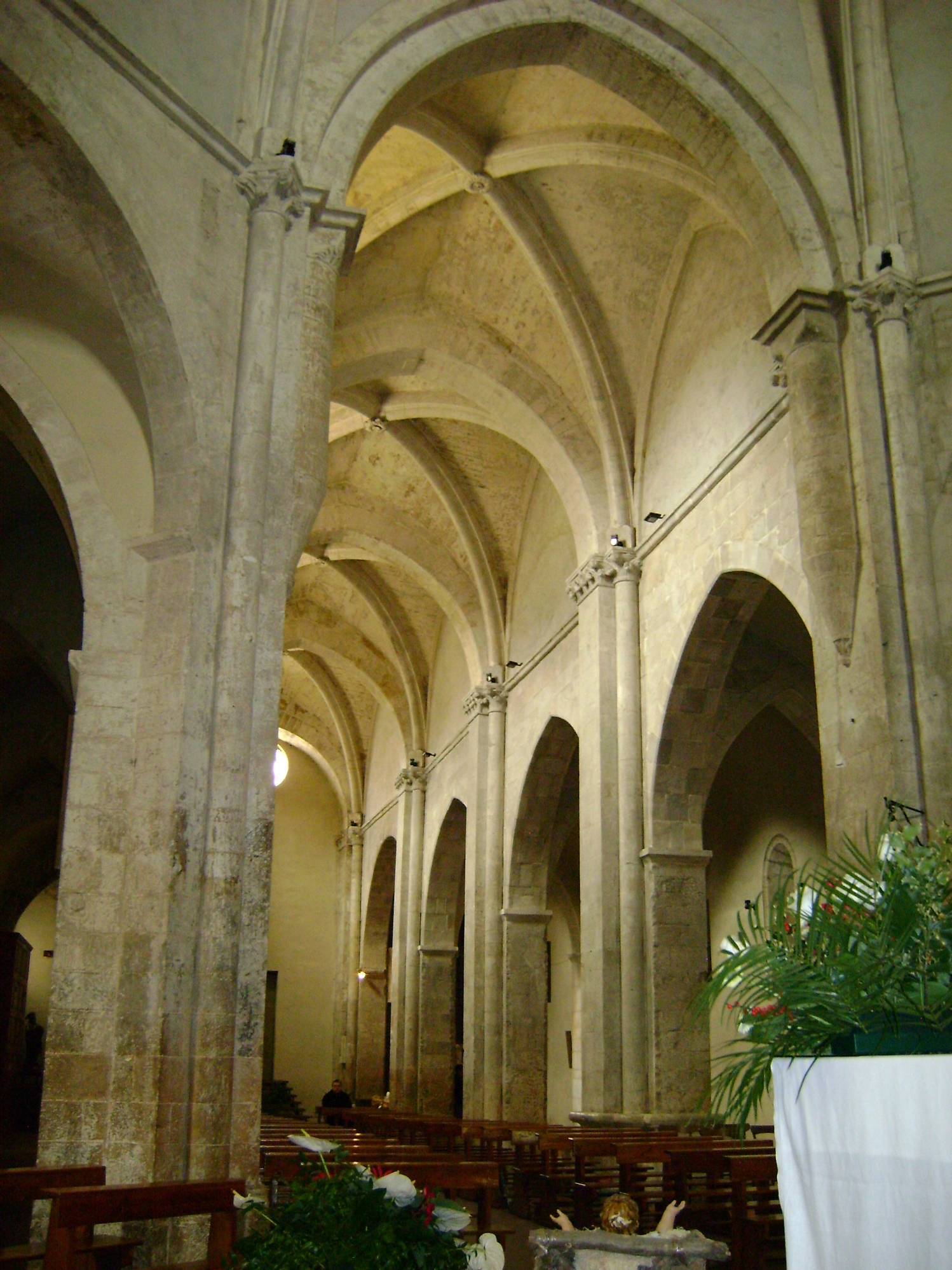 The nave of the church of Santa Maria Maggiore, Lanciano, Chieti Province, Abruzzo